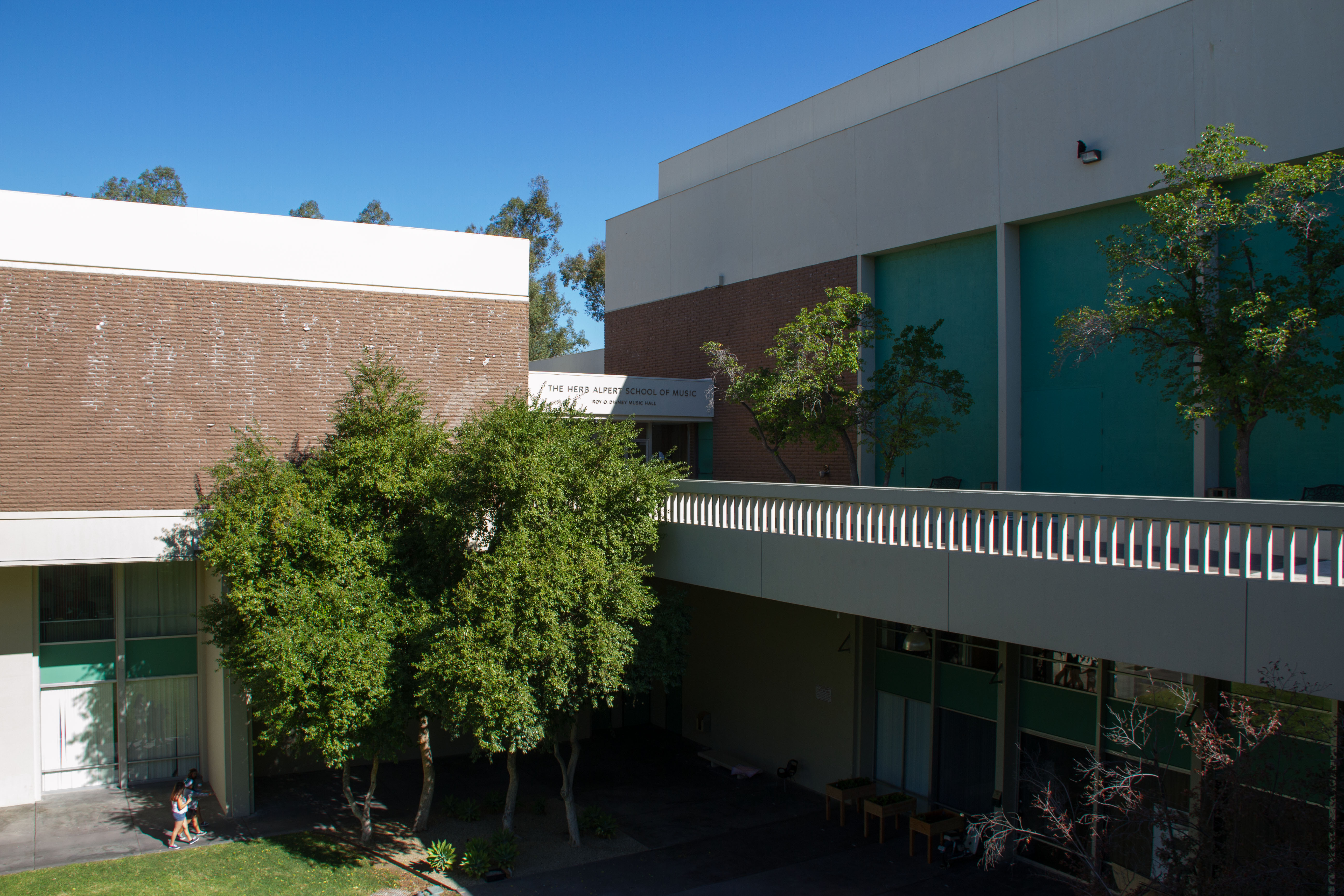 The Herb Alpert School of Music at CalArts, Valencia, California, USA.